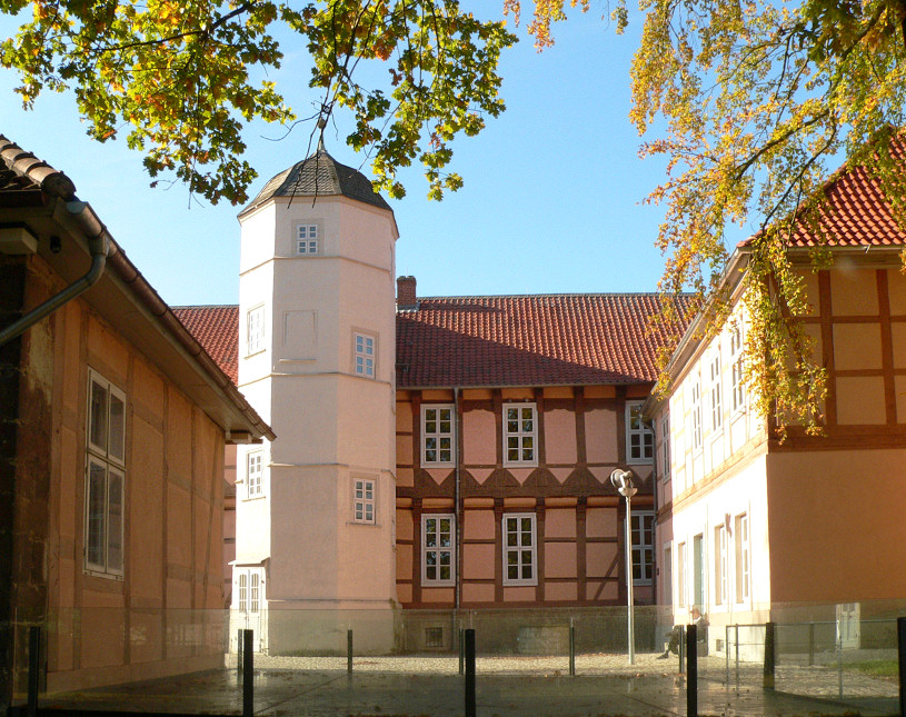 Courtyard of Fallersleben Castle, Lower Saxony, Germany